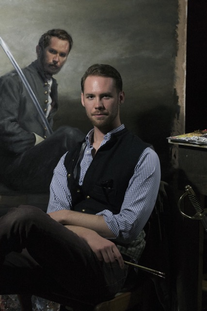 artist Will Blake in the studio